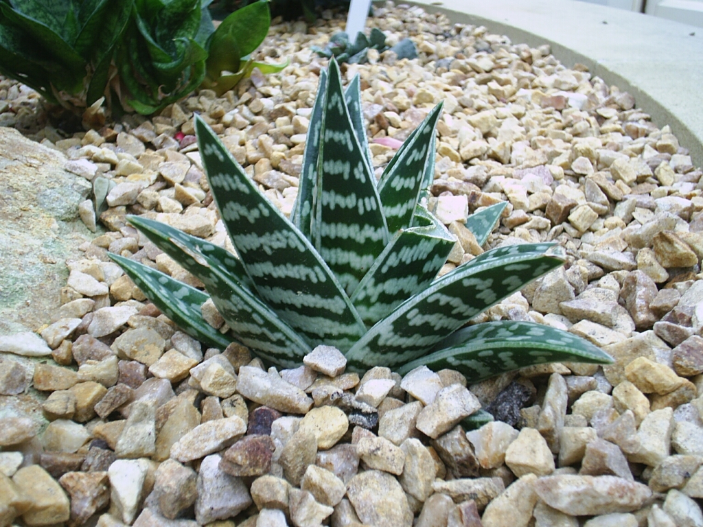 Gonialoe variegata in the Sheffield (UK) Botanical Gardens. Note that one of the leaves has been severed.